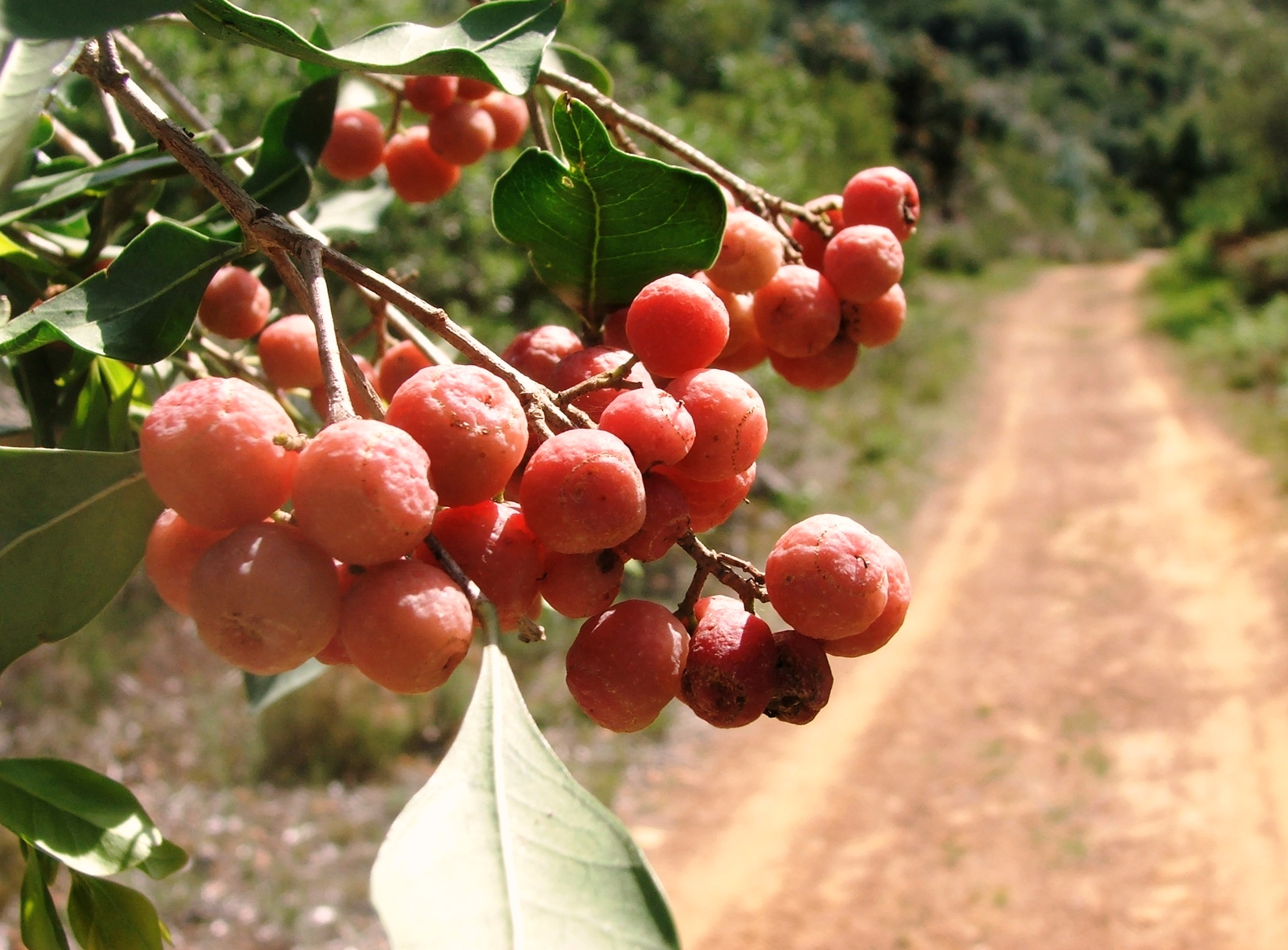 Olinia emarginata. SA.